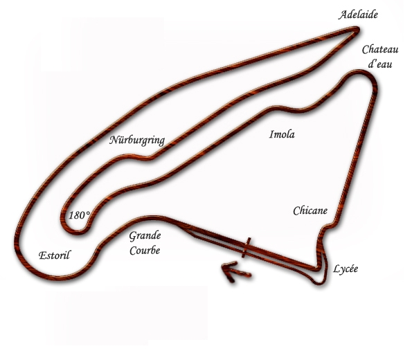 France Grand Prix Formula 1 /1992-1999/ Circuit de Nevers Magny-Cours Autor: Jiří Žemlička, edited by User:NSX-Racer (description and length removed)